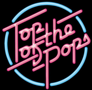 Official logo of the BBC Television show Top of the Pops from 1974 to 1986.